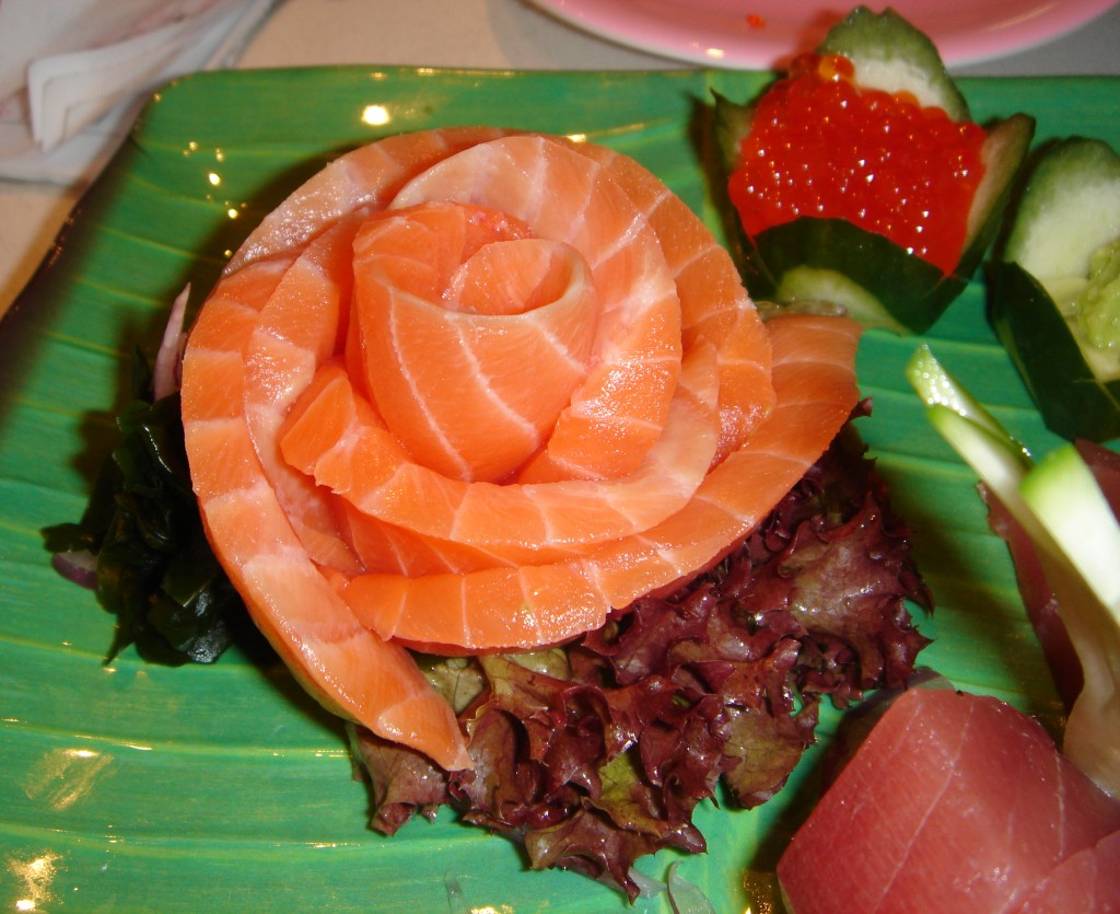 A salmon rose, part of a sashimi dinner set. Taken on 24 Jan 2006 by blu3d.